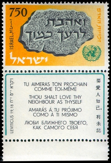 Israeli stamp marking the 10th anniversary of the adoption by the United Nations of the Universal Declaration of Human Rights - 750 mil